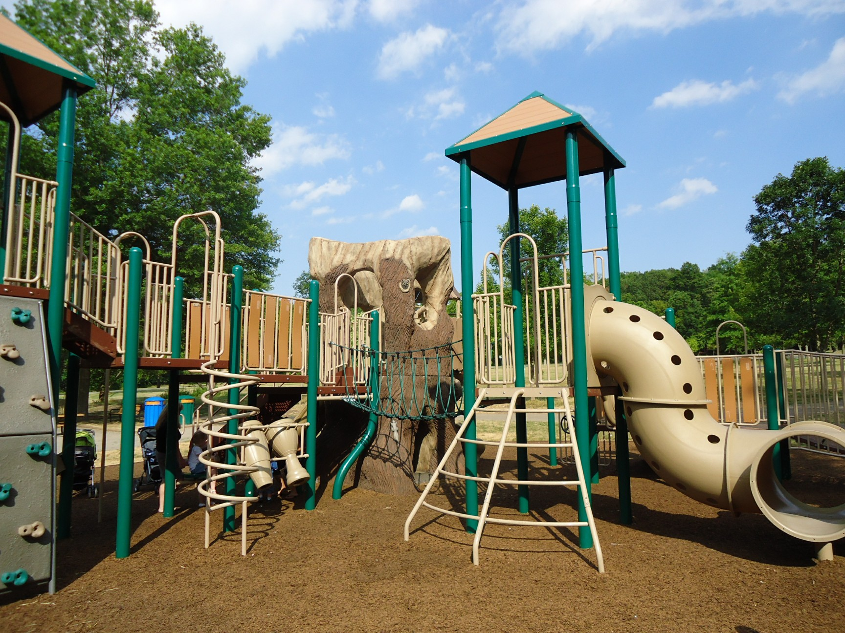 Playground in Watchung, New Jersey.